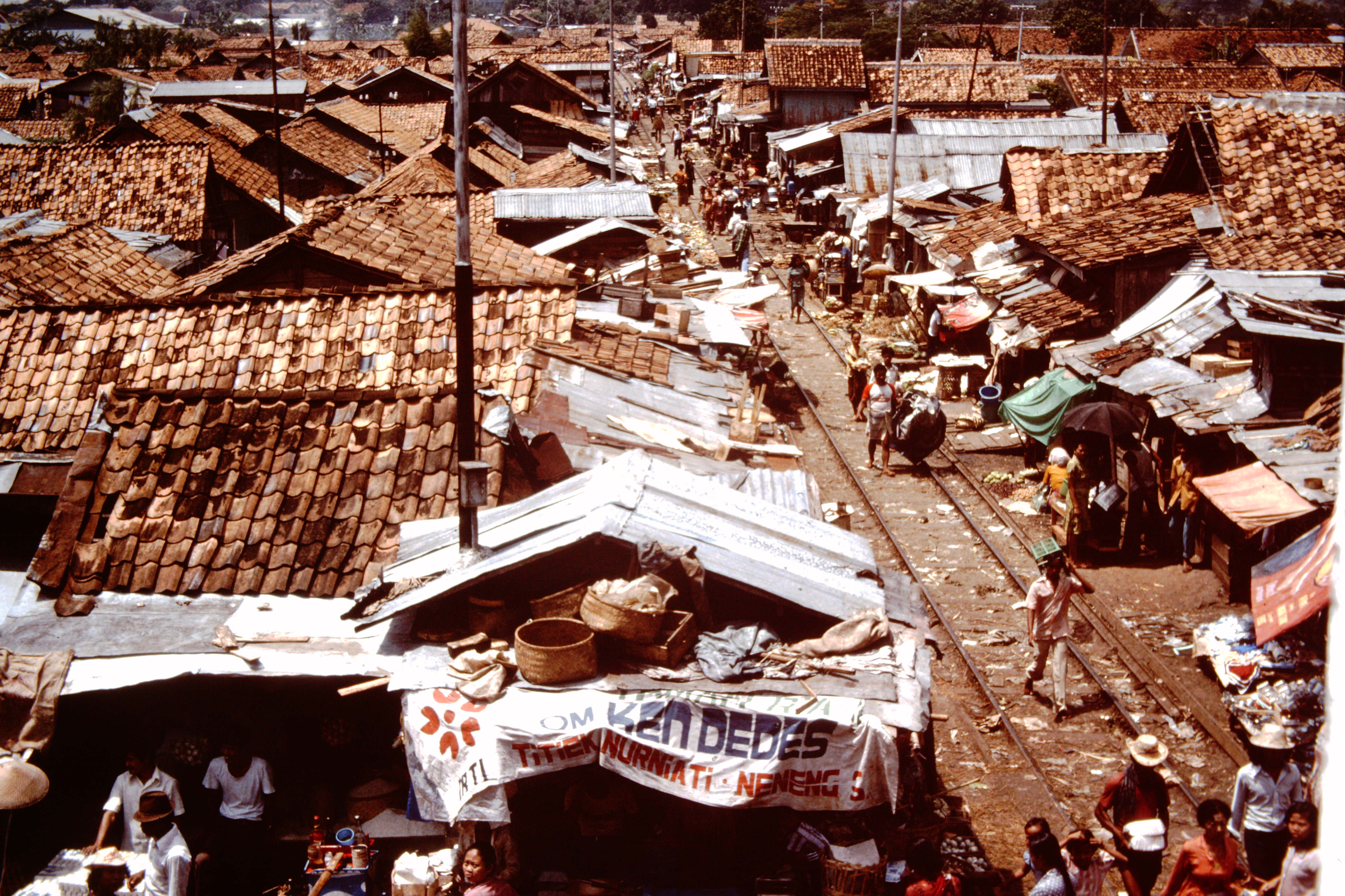 Slum with tiled roofs and railway, Jakarta railway slum resettlement, Indonesia.